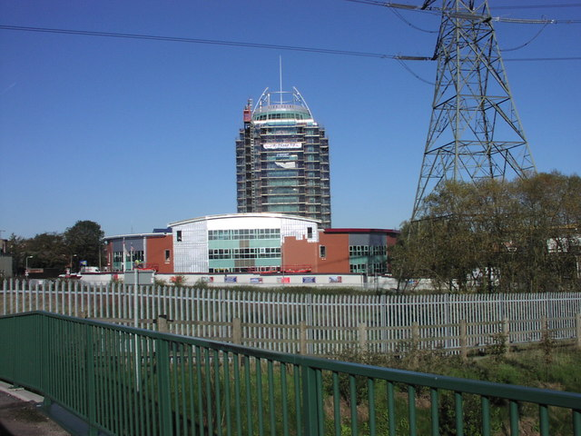 The New Ramada Hotel, Churchbridge, Cannock, near to Bridgtown, Staffordshire, Great Britain. The New Hotel built on the site of the old McAlpine yard at Churchbridge, just prior to opening in May 2007